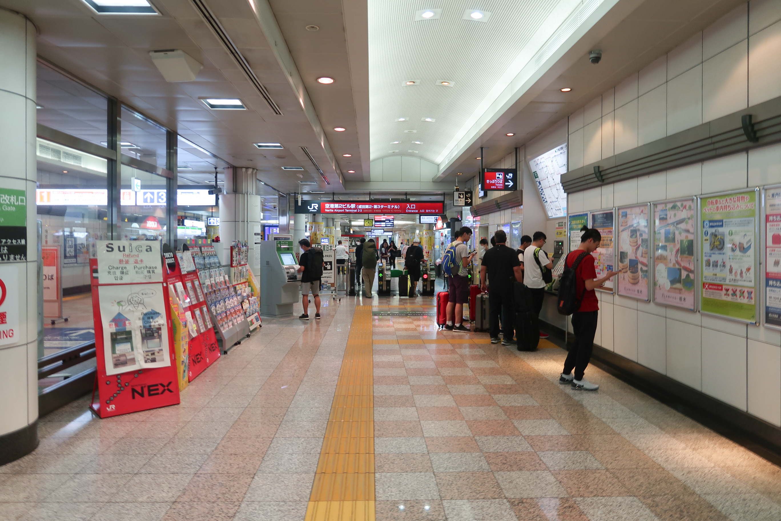 Narita Airport Terminal 2·3 Station